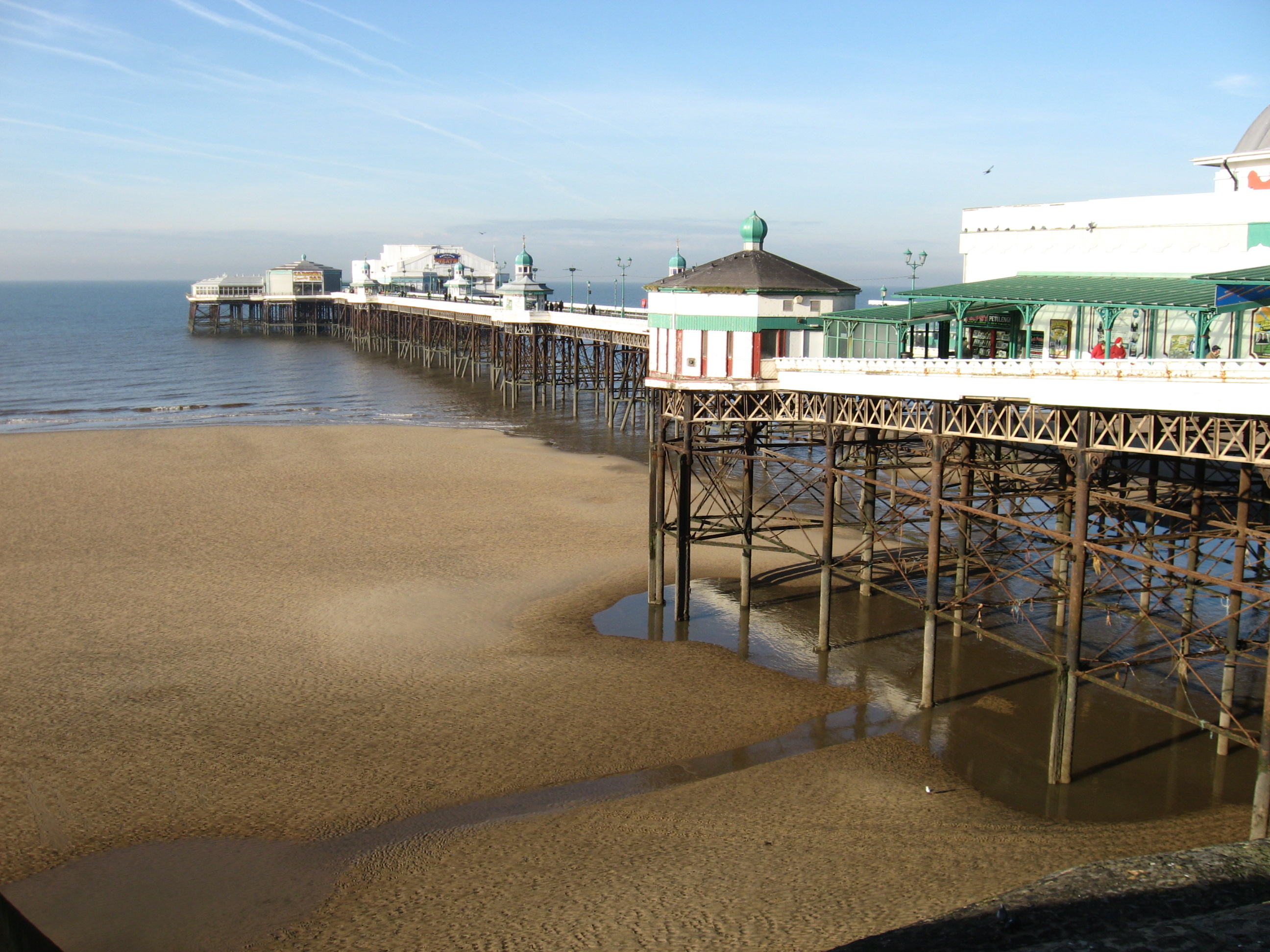 Blackpool pier at low tide